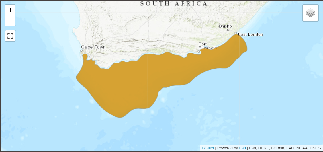 Habitat southern spiny lobster